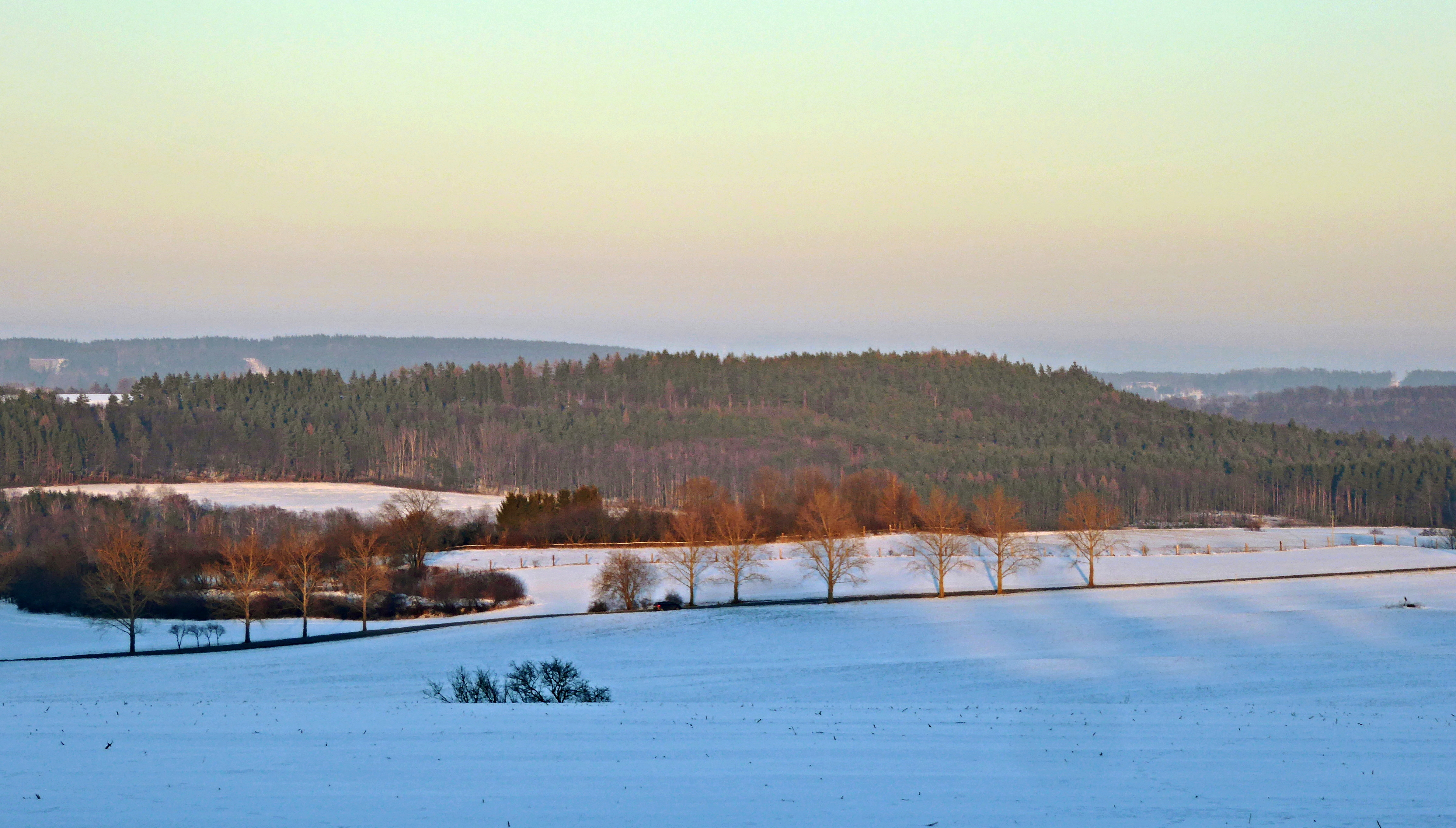 "Štěpanovská stupňovina", frontal slope of cuesta below the highest point "Heráně" (453,2 m asl). View from the airport in Skuteč. Photo location: Czechia, Pardubice Region, Skuteč town.